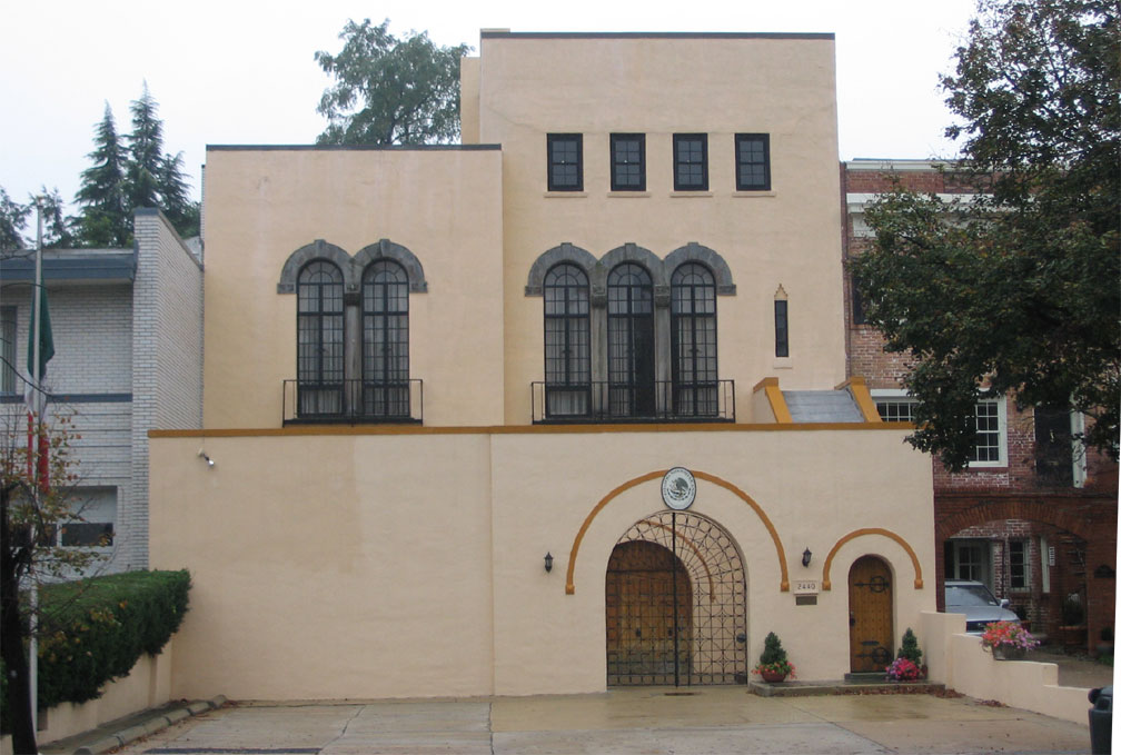 Mexican Embassy to the OAS (Organization of American States) on 2440 Massachusetts Ave. N.W. Washington DC. 20008, taken by Zarxos in October, 2005.